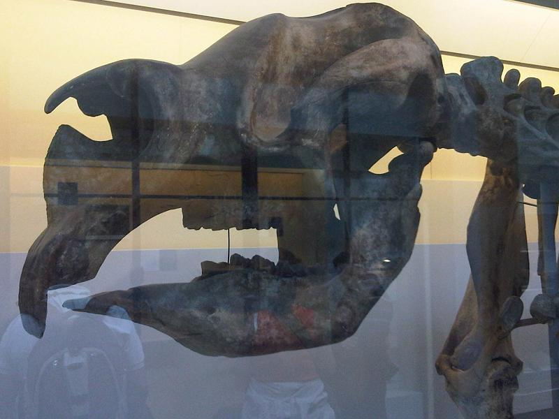 Giant Wombat or Rhinoceros Wombat (Diprotodon optatum - syn: Diprotodon australis) skull at the Natural History Museum in London, England.